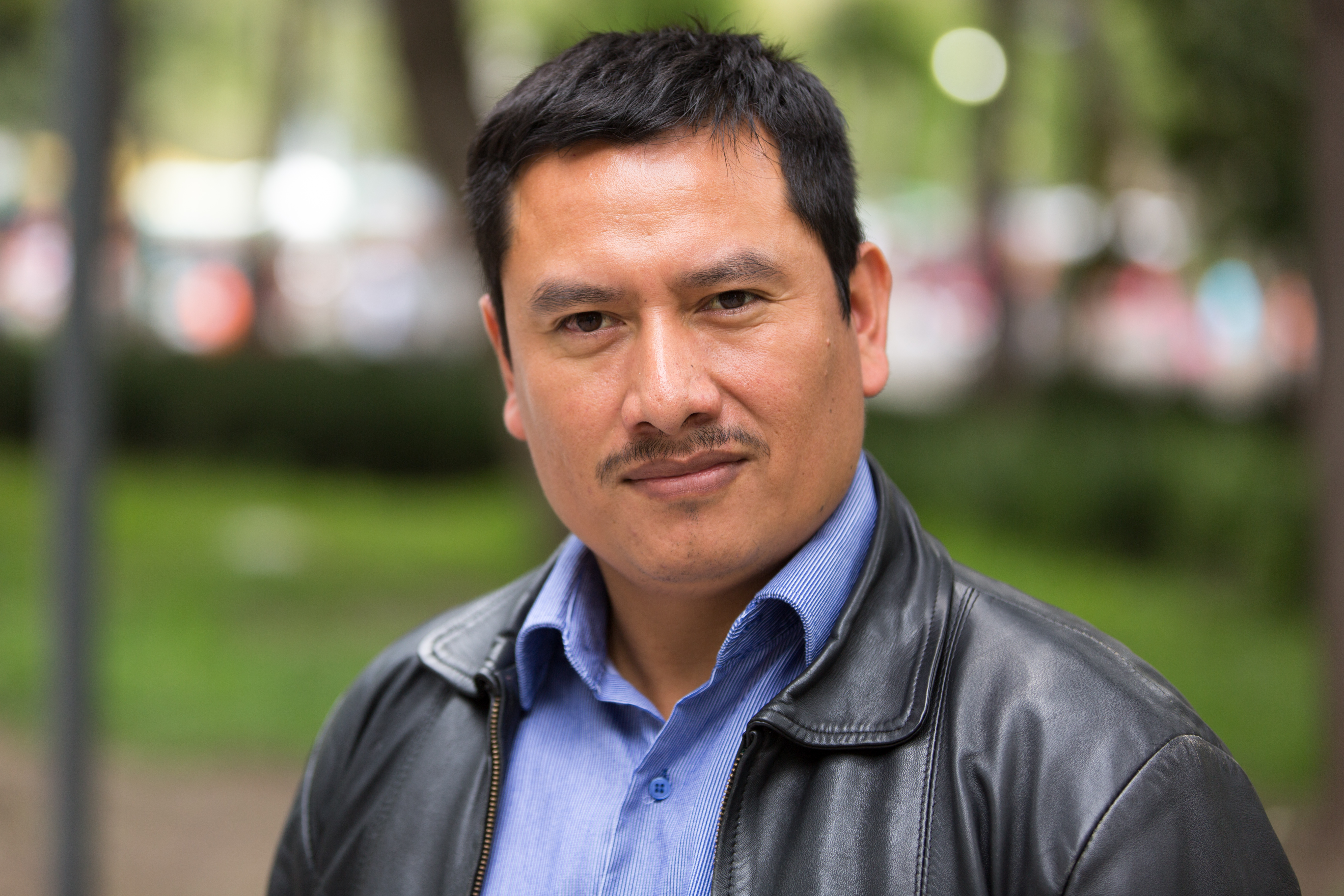 Victoriano de la Cruz